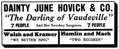 Ad for Dainty June & Company vaudeville show published in the Decatur Review on November 13, 1927 as part of an ad for The Bijou theater.